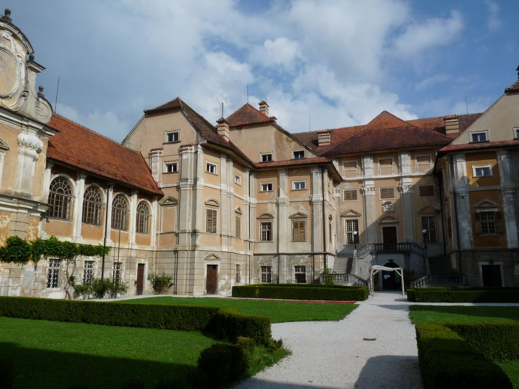 Štatenberg